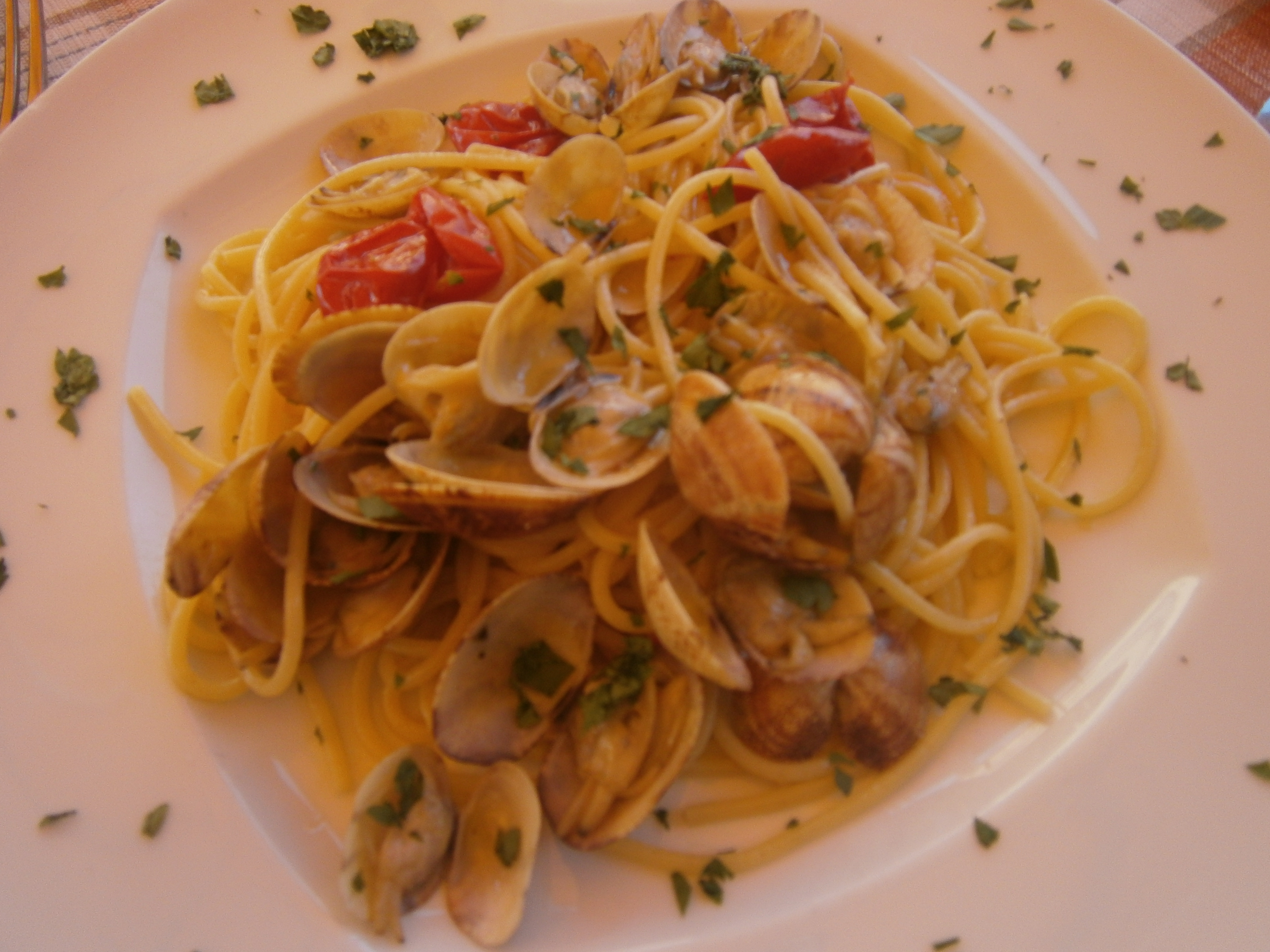 Spaghetti alle vongole - spaghetti with clams